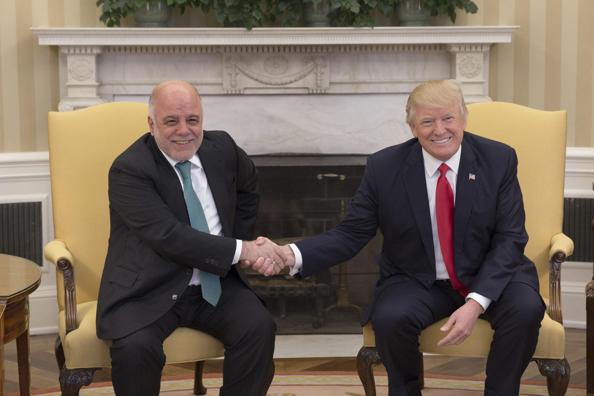 President Donald Trump shakes hands with Iraqi Prime Minister Haider al-Abadi, Monday, March 20, 2017, in the Oval Office of the White House in Washington, D.C. (Official White House photo by Benjamin Applebaum)